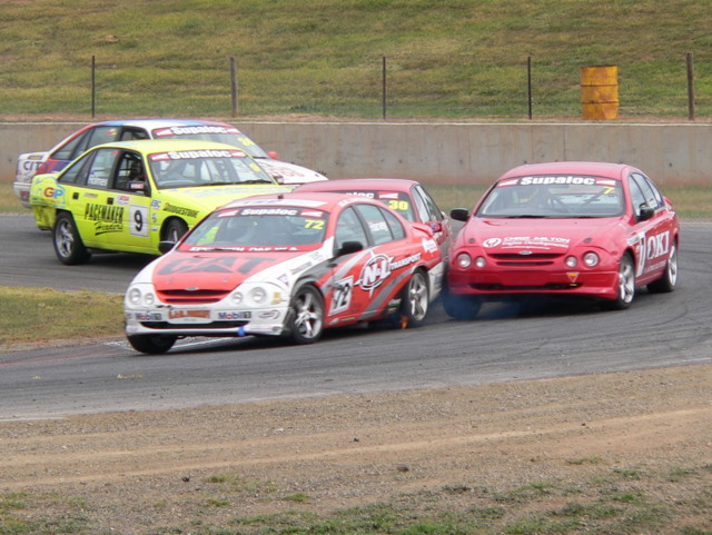 Very close racing at the Northern Hairpin at Mallala Motor Sport Park. Clint Harvey (# 71 Ford AU Falcon) leads Paul Fiore (#30 Holden VN Commodore), Scott Nicholas (#7 Ford AU Falcon) and Peter Holmes (#9 Holden VN Commodore) in Race 2 of Round 4 of the 2006 Australian Saloon Car Championship